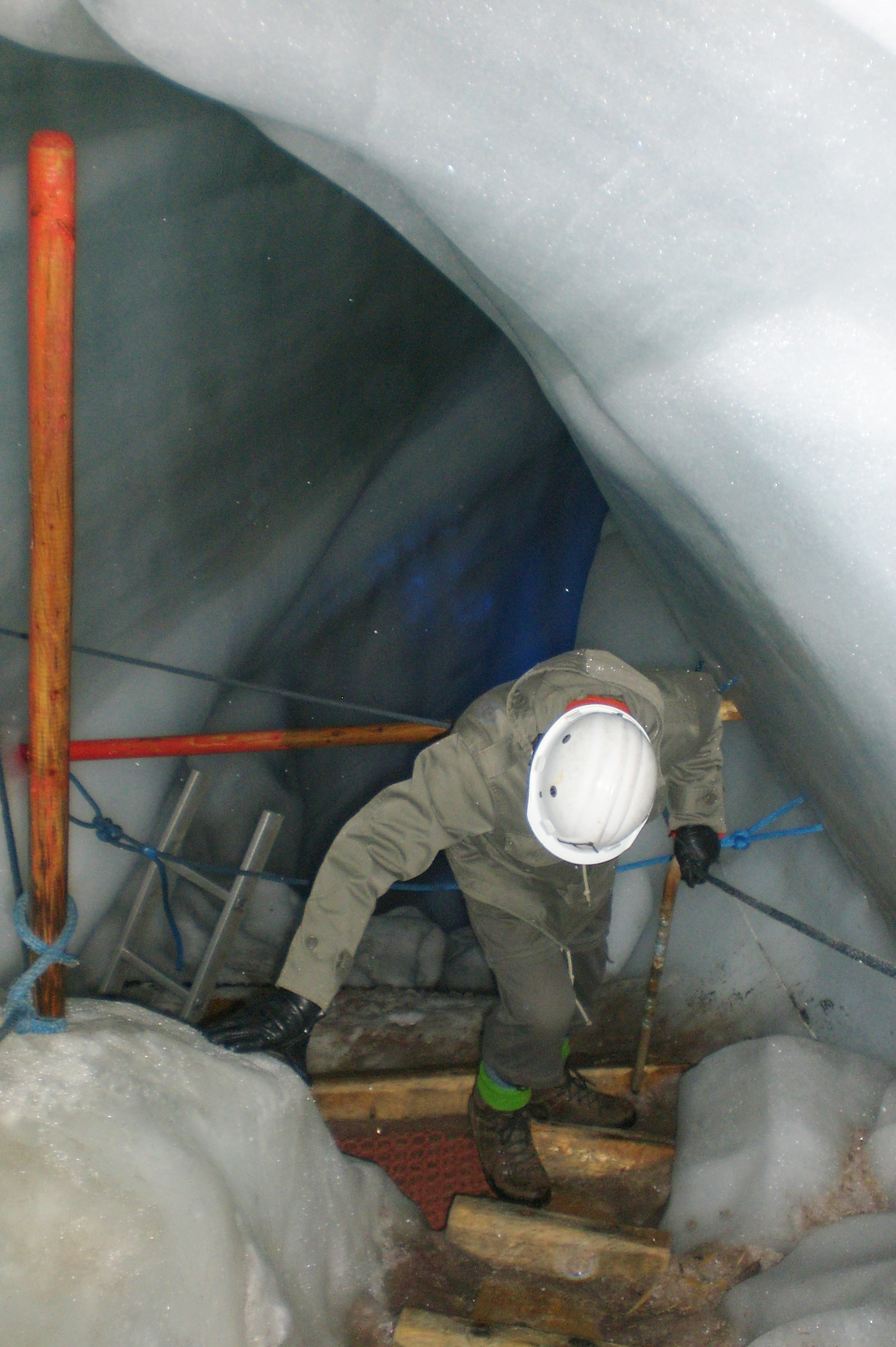 Austria Tyrol